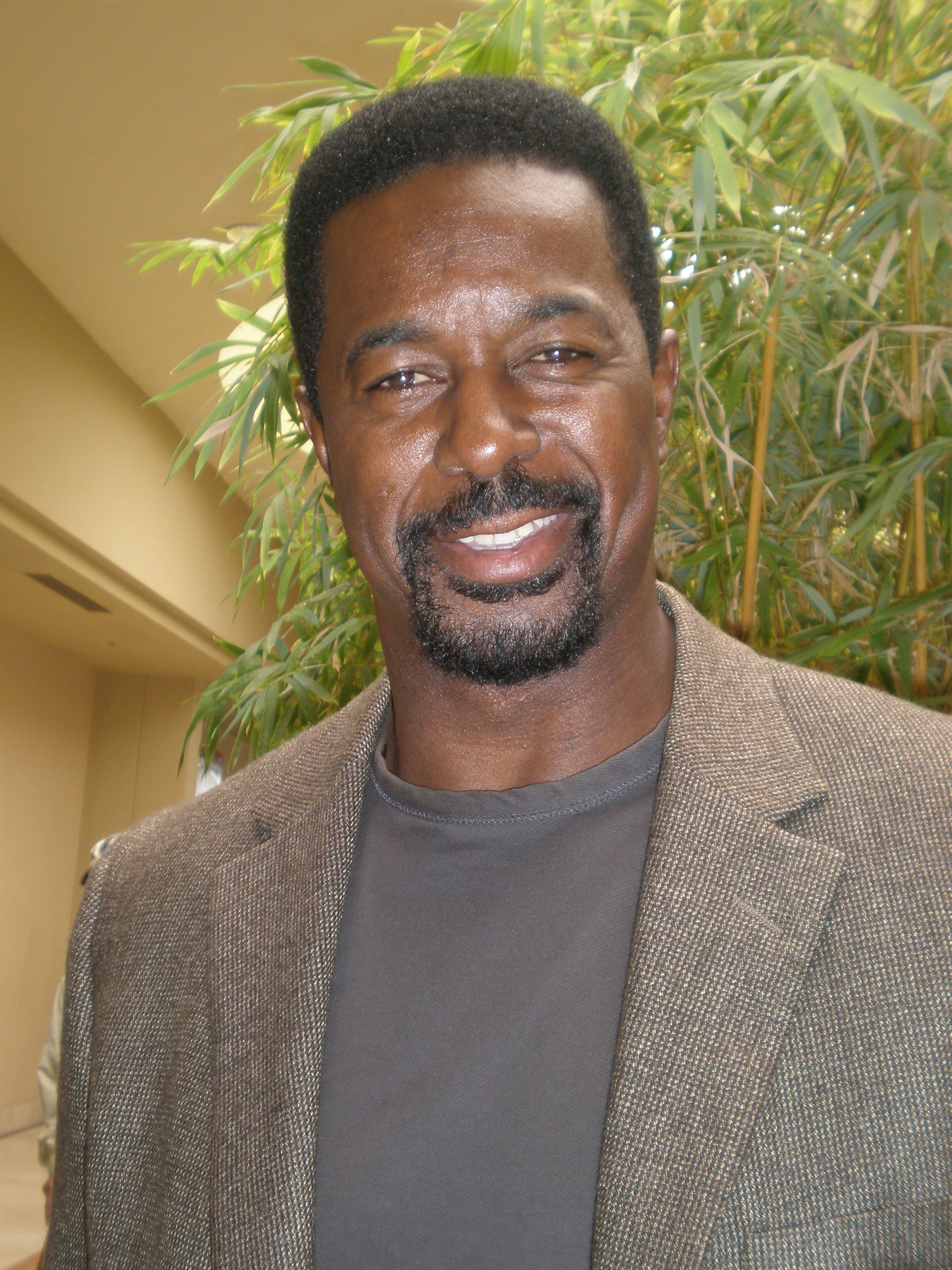 San Francisco 49ers safety/cornerback and two time Super Bowl Champion (Super Bowl XVI and Super Bowl XIX) Dwight Hicks making an appearance at Serramonte Center in Daly City, California.